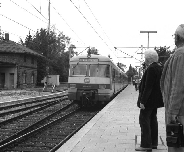 S-Bahn train at Grosshesselohe Isartalbahnhof